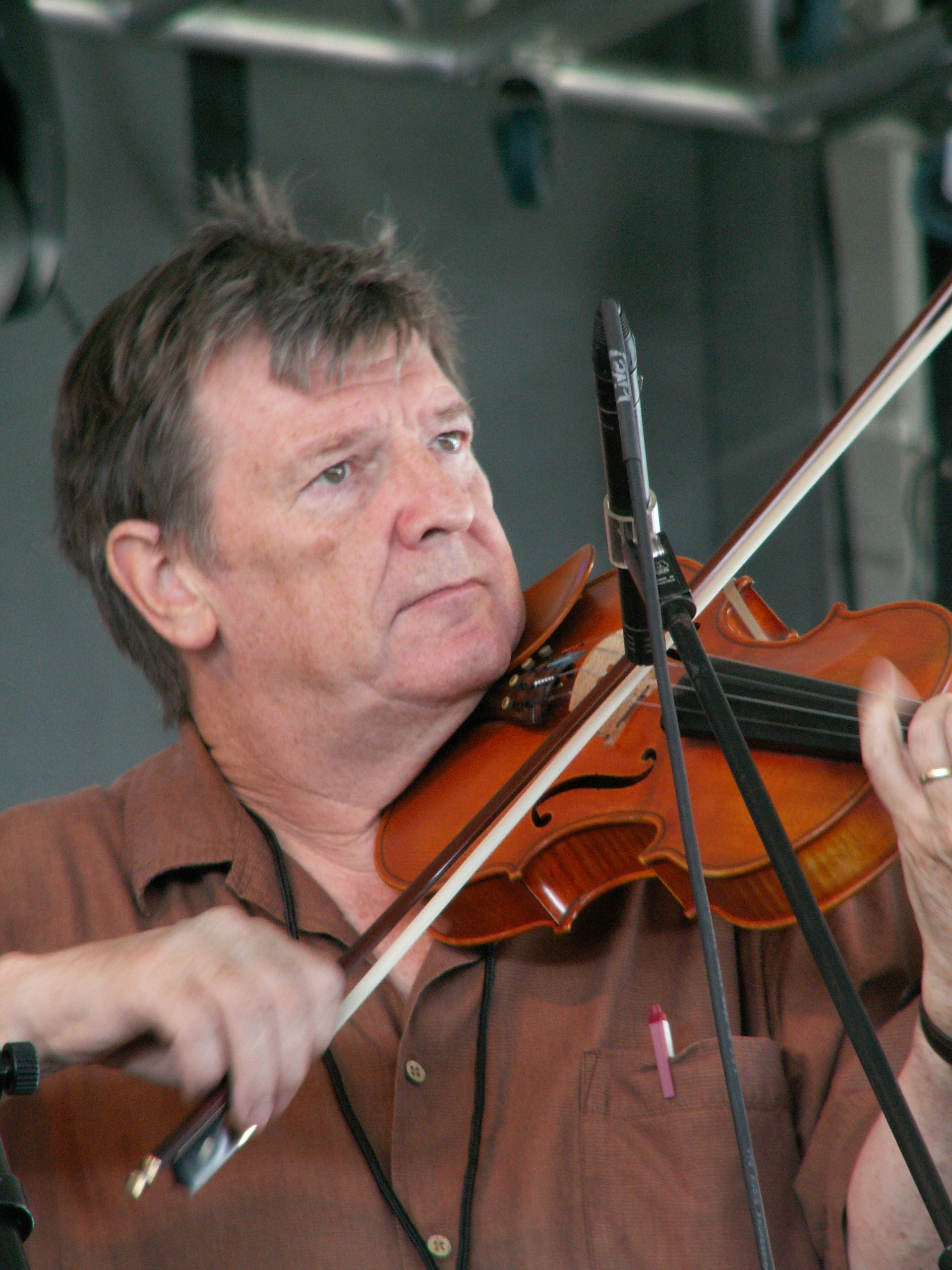 Kevin Burke performing with Patrick Street at the Dublin Irish Festival in Dublin, Ireland, 3 August 2008